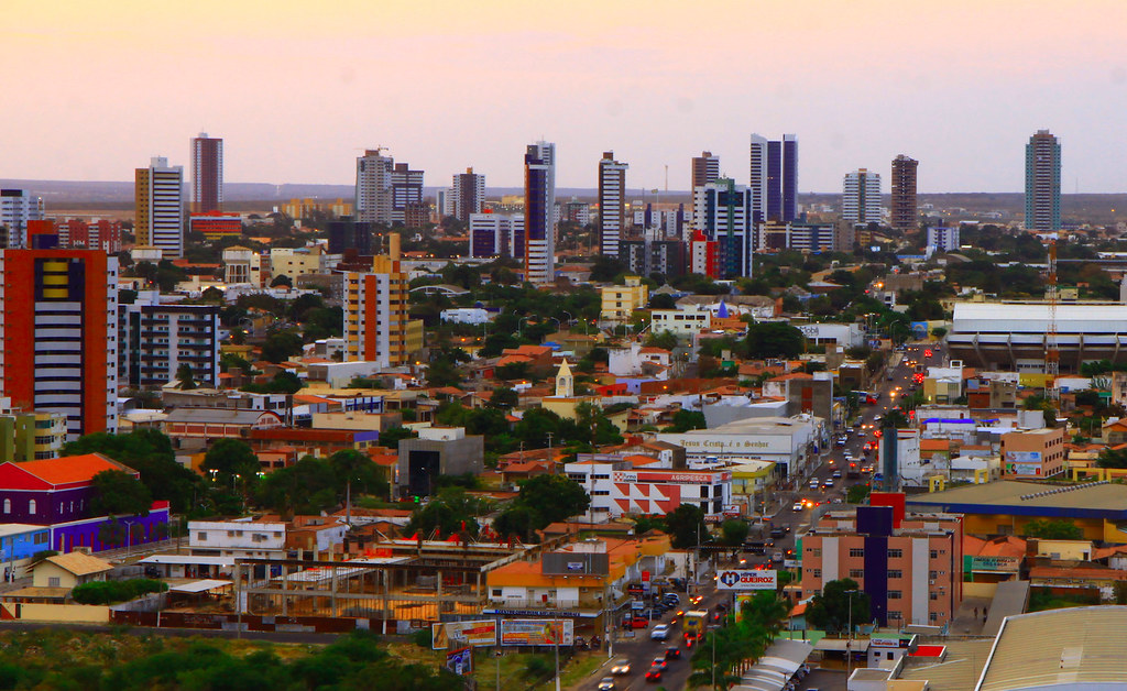 Mossoró